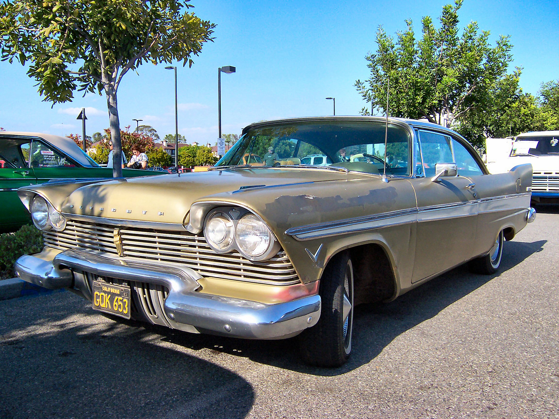 1957 Plymouth Belvedere. Photo by User:Morven at the weekly Garden Grove, California car show.